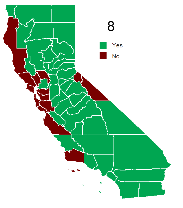 Electoral results by county